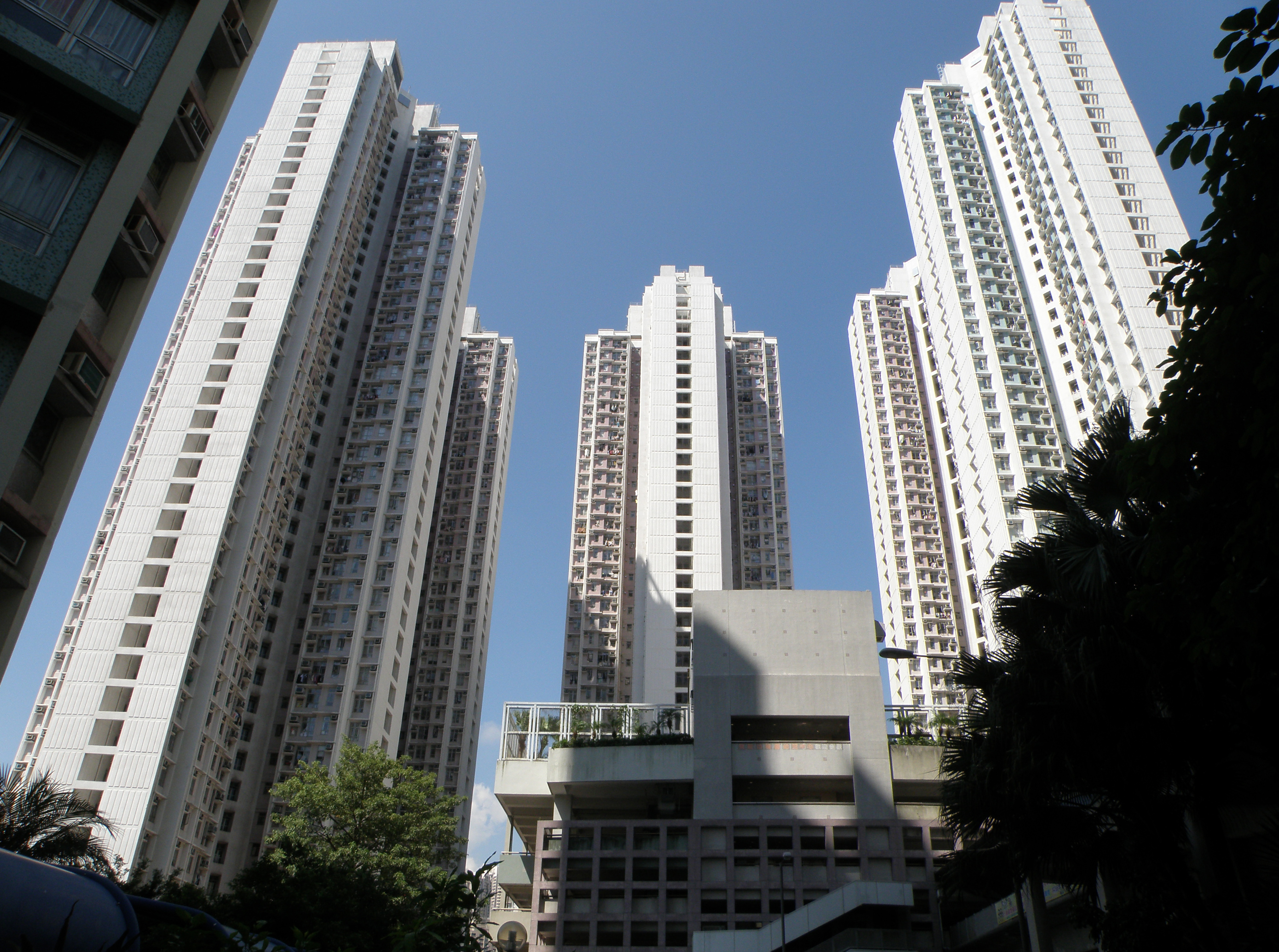 Hong Yat Court in Lam Tin, Hong Kong.